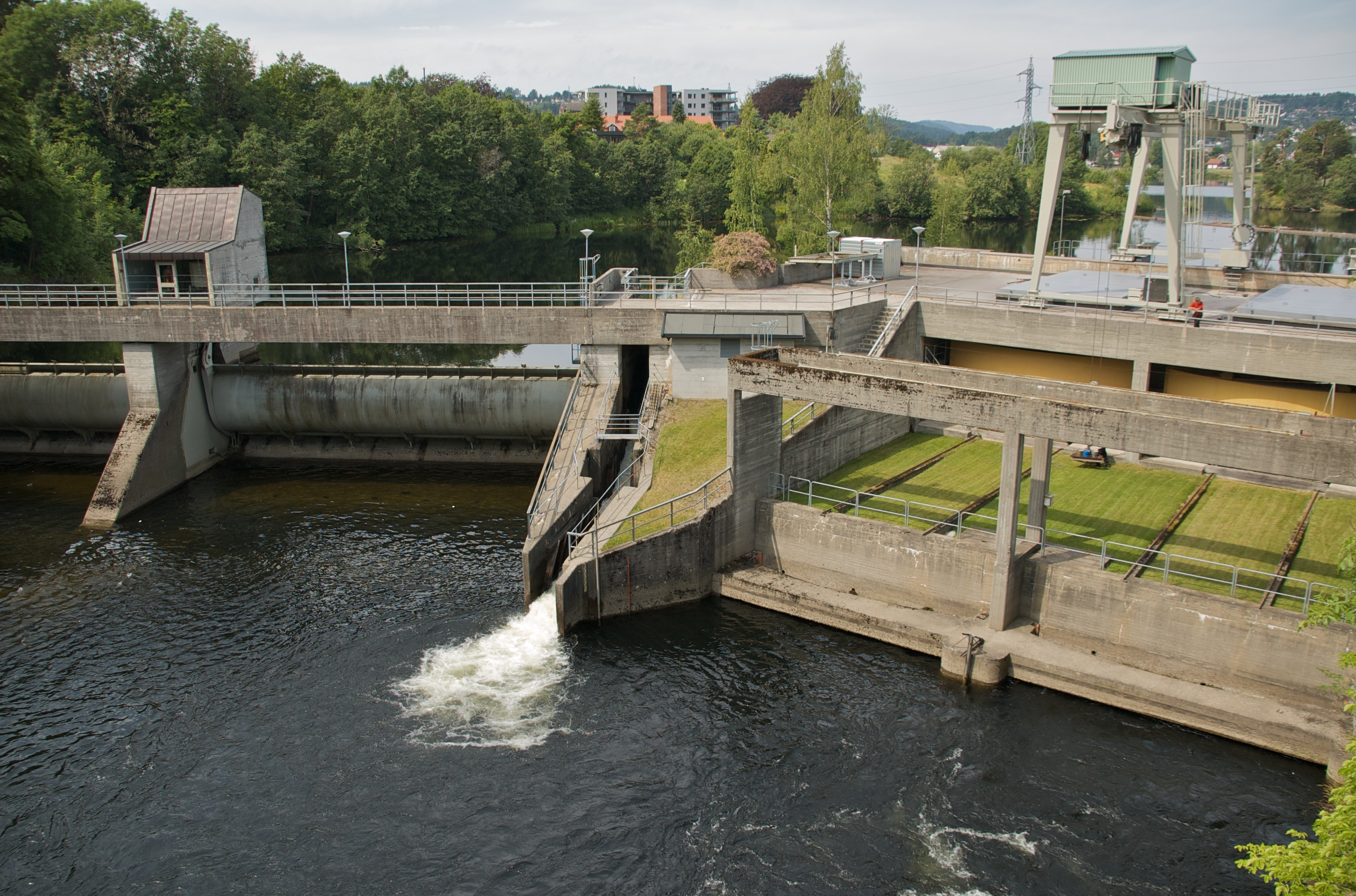 Klosterfoss kraftverk, hydro power plant in Skien, Norway.